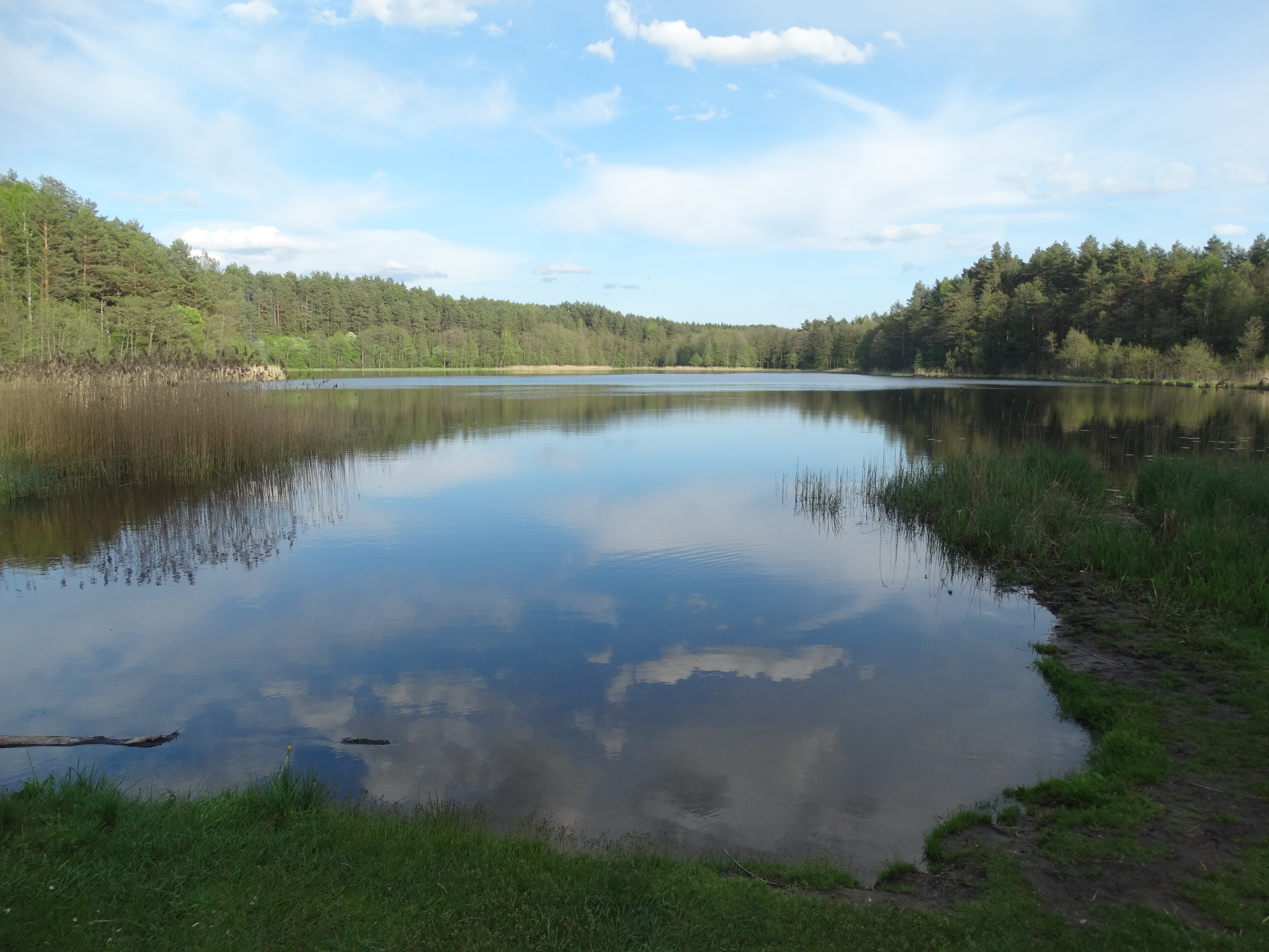 Elniakampis Lake, Vilnius District, Lithuania